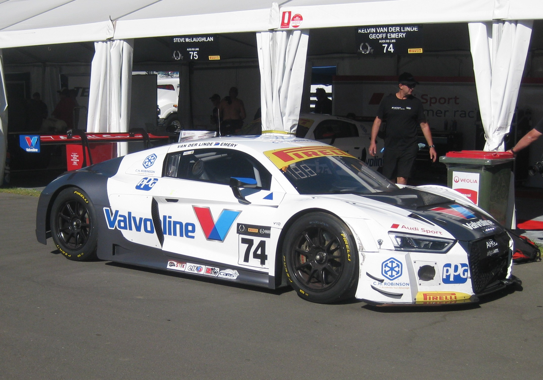 The Audi R8 LMS of Geoff Emery & Kelvin van der Linde at the Adelaide Parklands Circuit for the opening round of the 2017 Australian GT Championship.